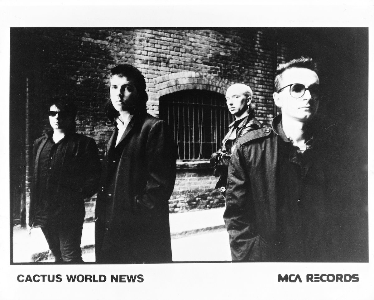 Official MCA Records 1986 publicity photo